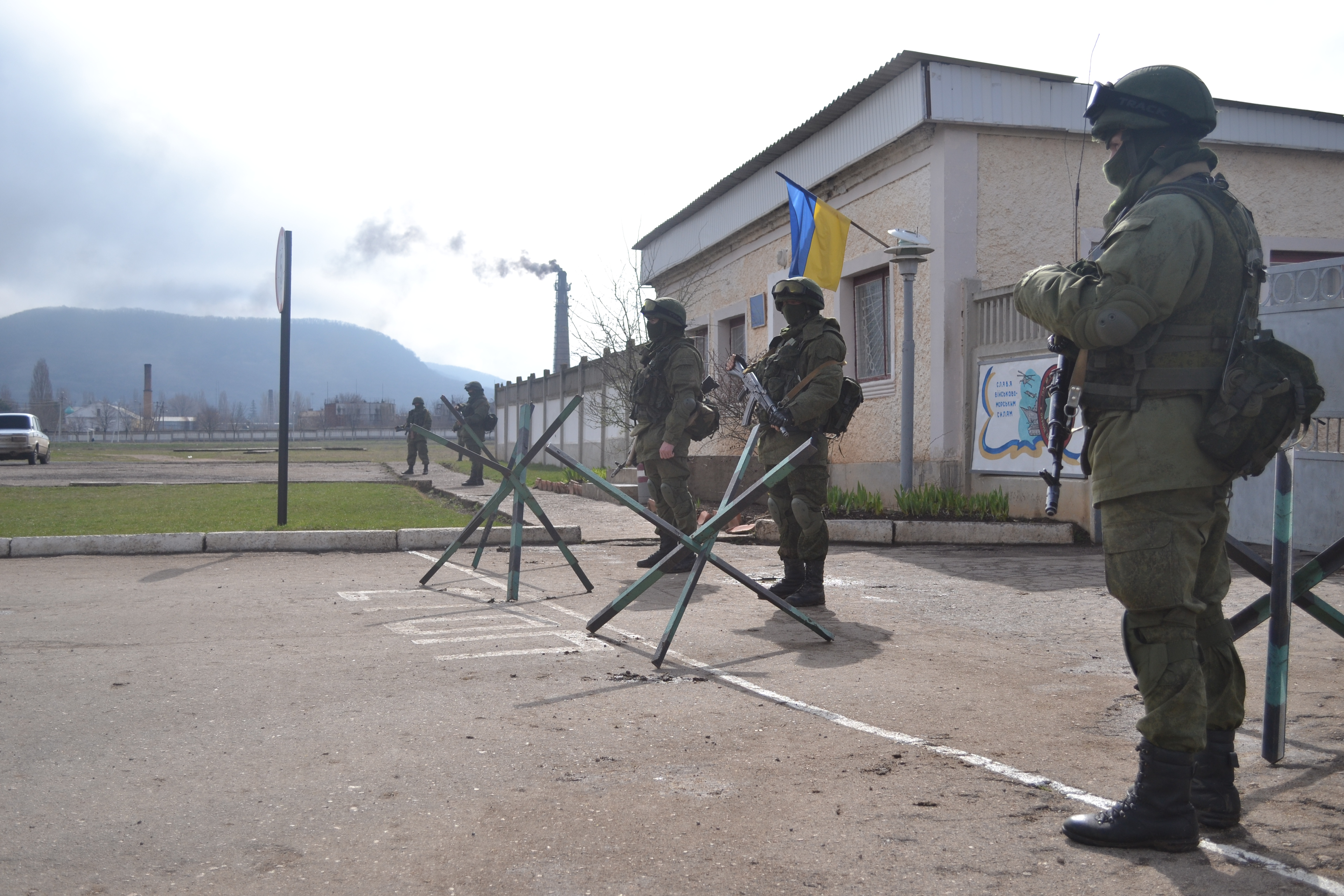 Military base at Perevalne during the 2014 Crimean crisis.